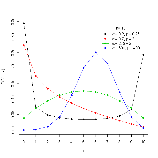 beta-binomial density function for several values of alpha and beta